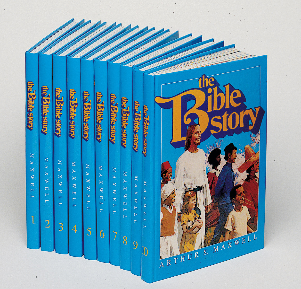 The current edition of the 10-volume set of The Bible Story by Arthur Maxwell.